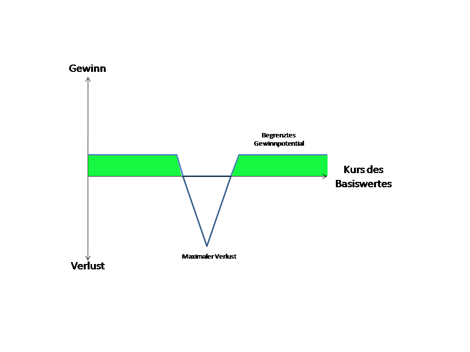 Short Butterfly Option